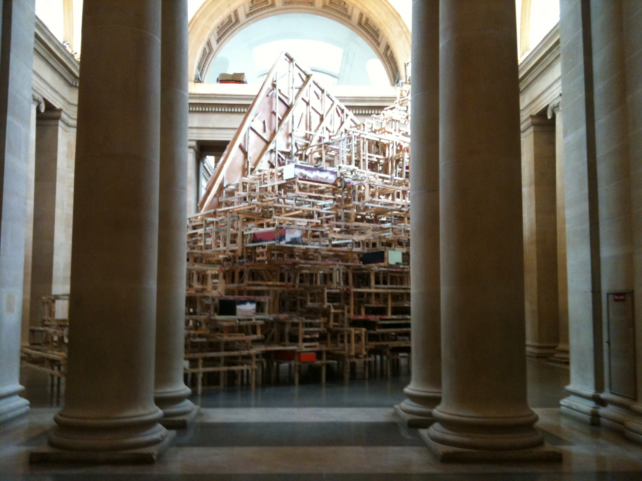 Picture of part of installation "dock" (2014) by Phyllida Barlow at Tate Britain.